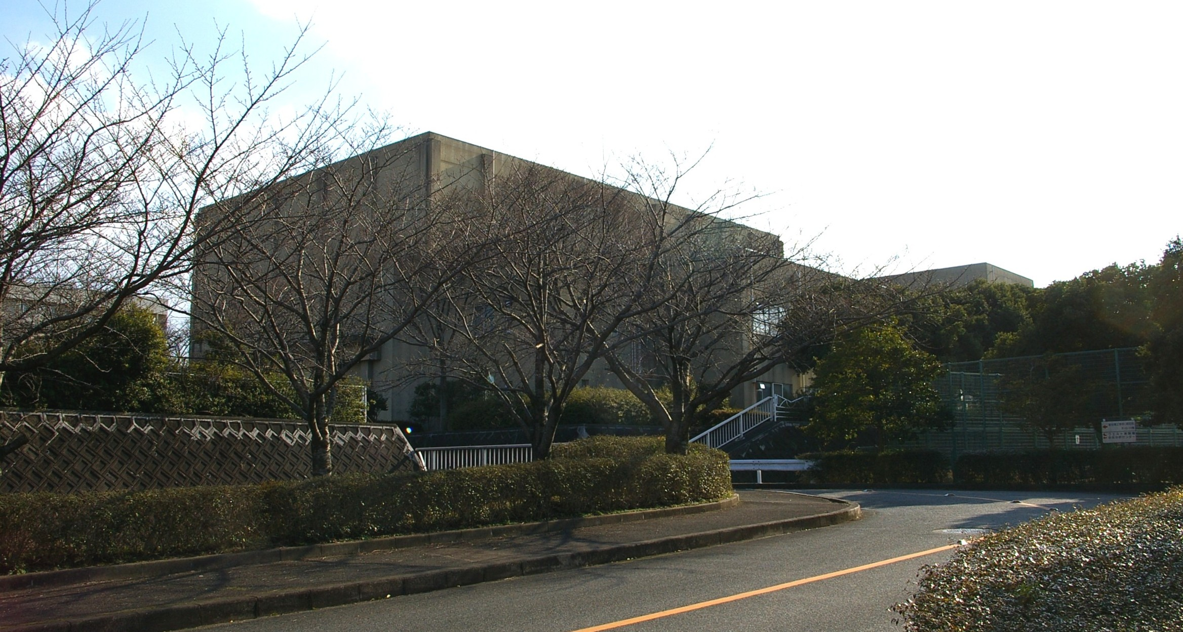 Fukuoka